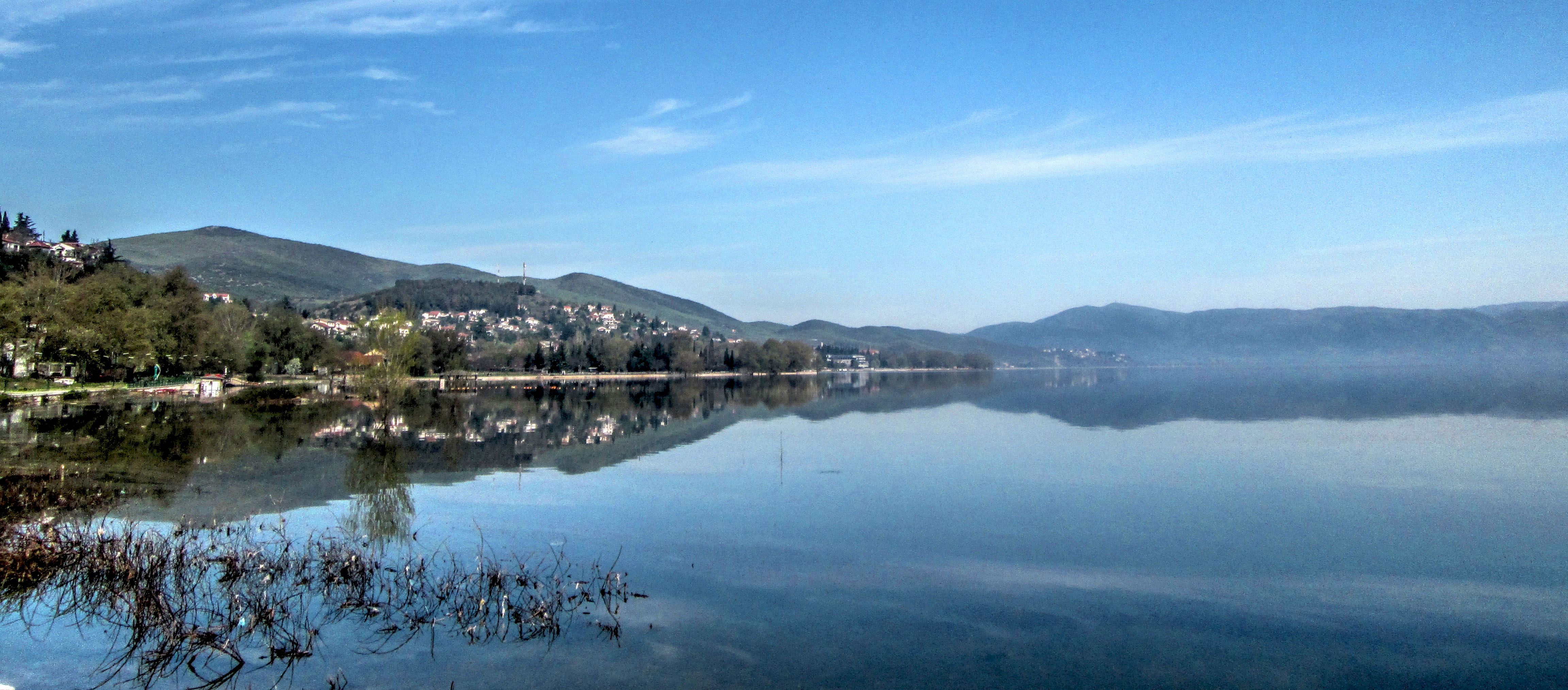 Reflection view from the coast of Dojran Lake to the town Dojran